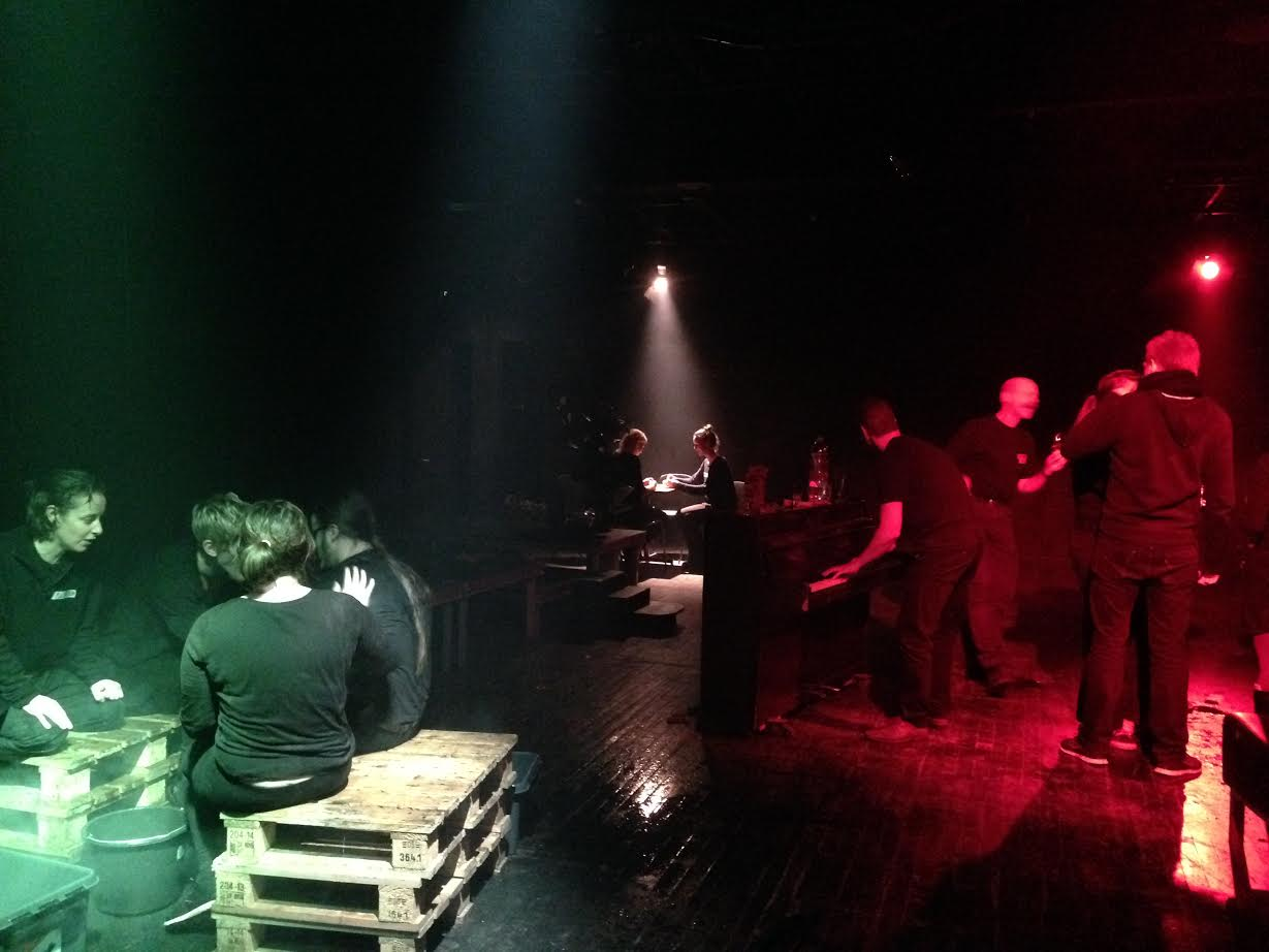 Champagne and Saltwater by Grethe Sofie Bulterud Strand and Martin Nielsen